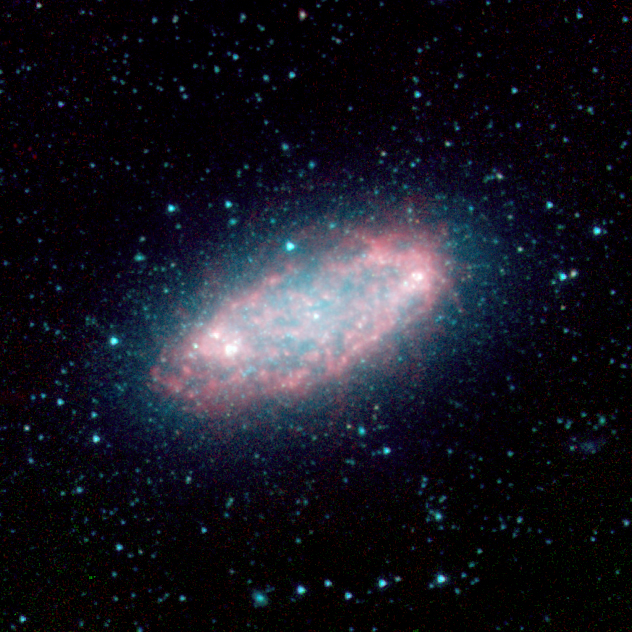 NGC 2976 The SINGS image is a four channel false color composite, where blue indicates emission at 3.6 microns, green corresponds to 4.5 microns, and red to 5.8 and 8.0 microns. The contribution from starlight (measured at 3.6 microns) in this picture has been subtracted from the 5.8 and 8 micron images to enhance the visibility of the dust features.